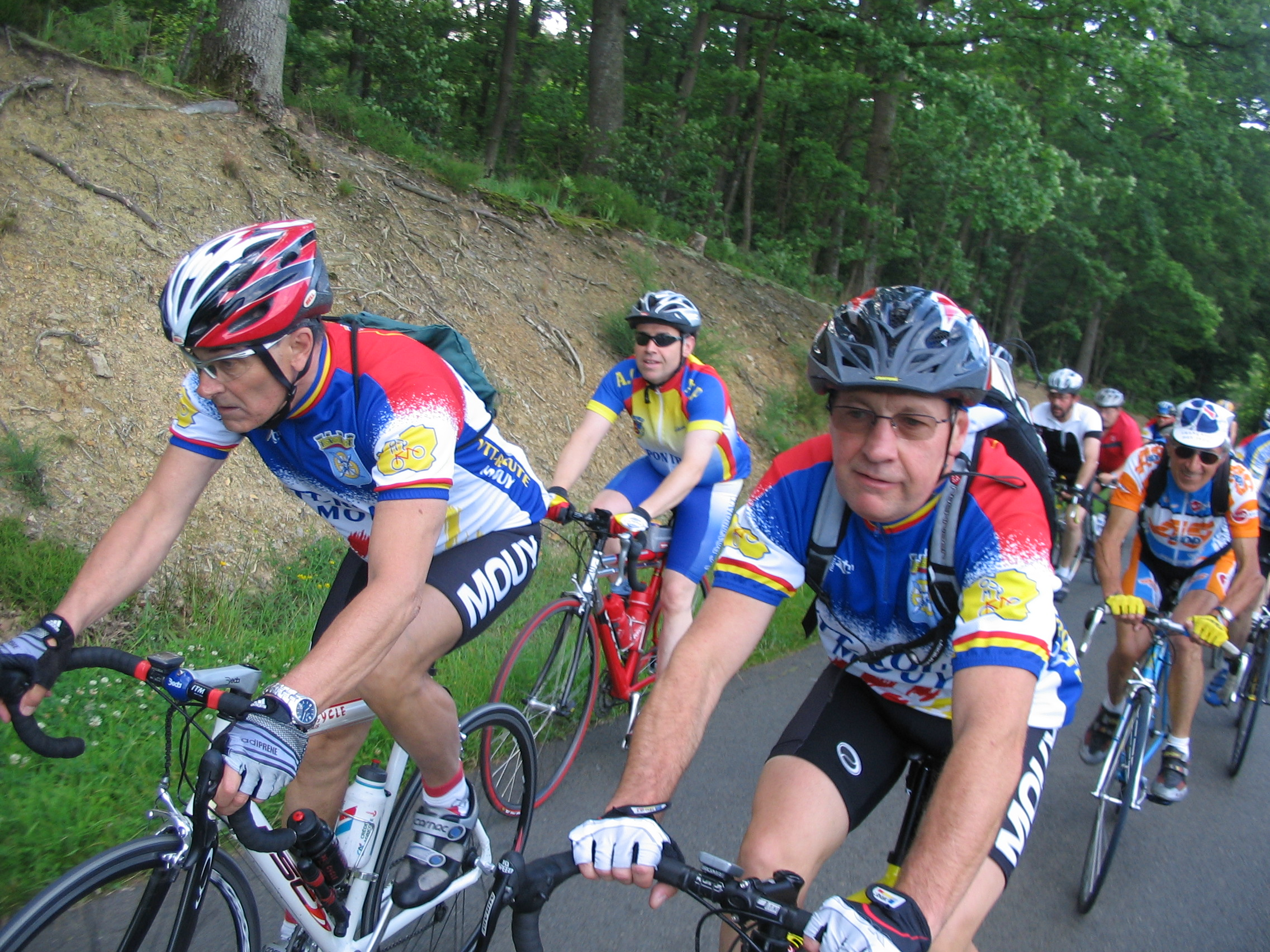 Ride of the Audax de Mouy organized in 2008.